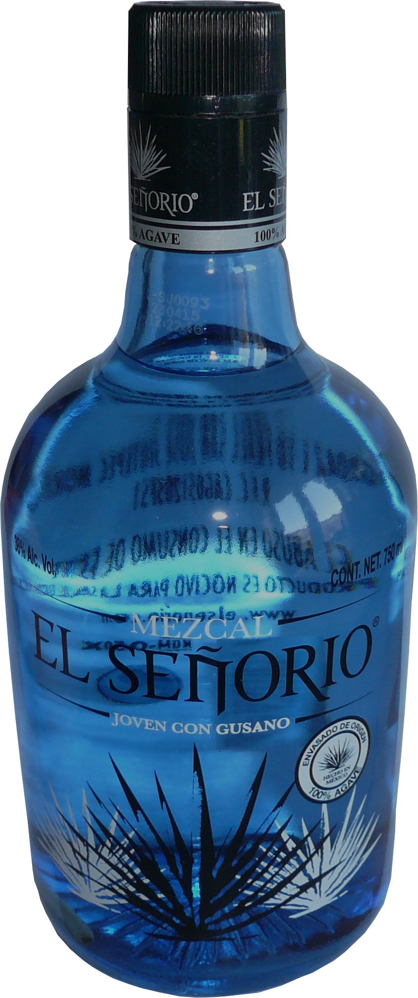 Mezcal "El Senorio"